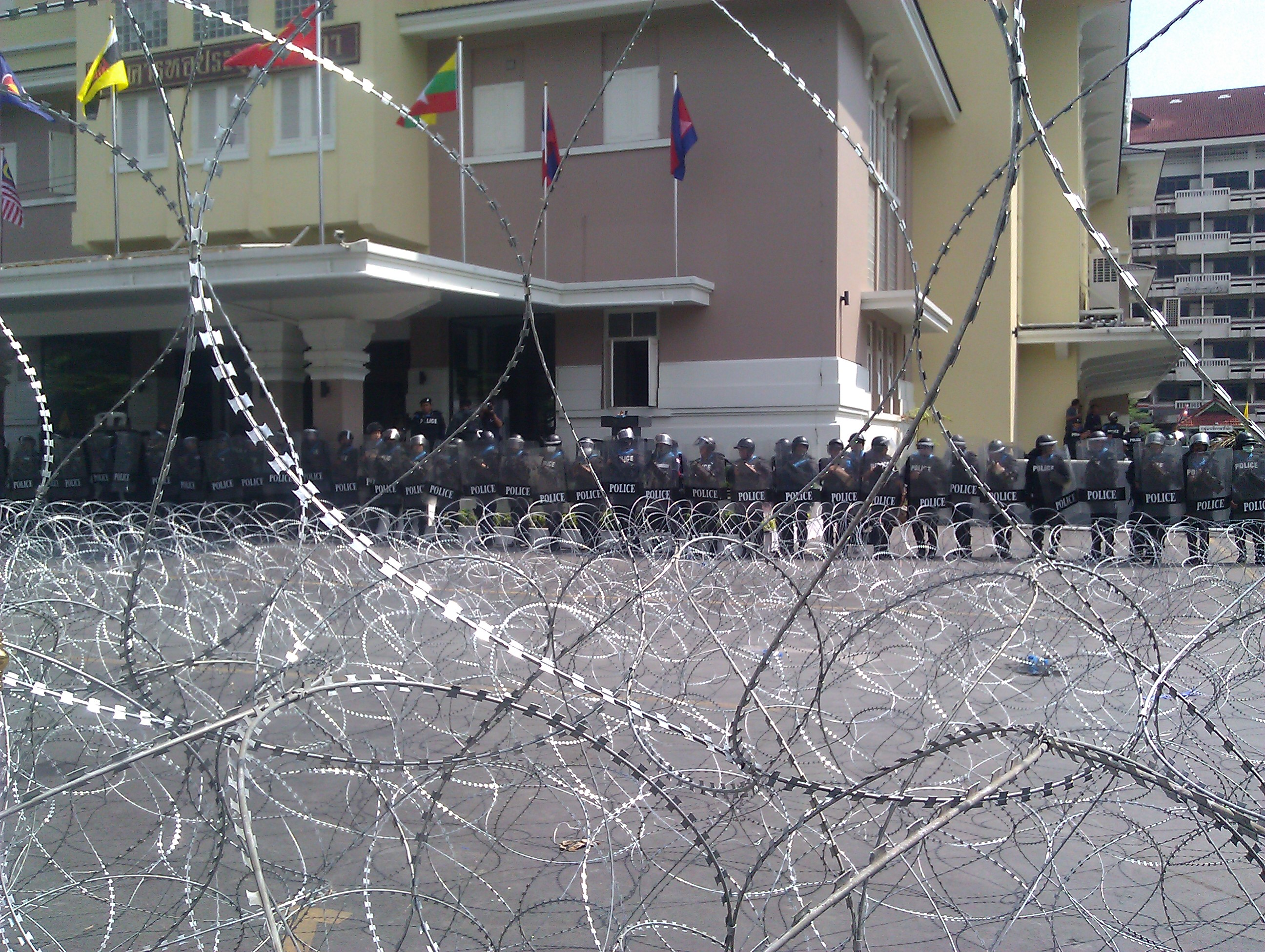 Riot police guarding a barricade at the Ministry of Education in Bangkok, Thailand on 1 December 2013